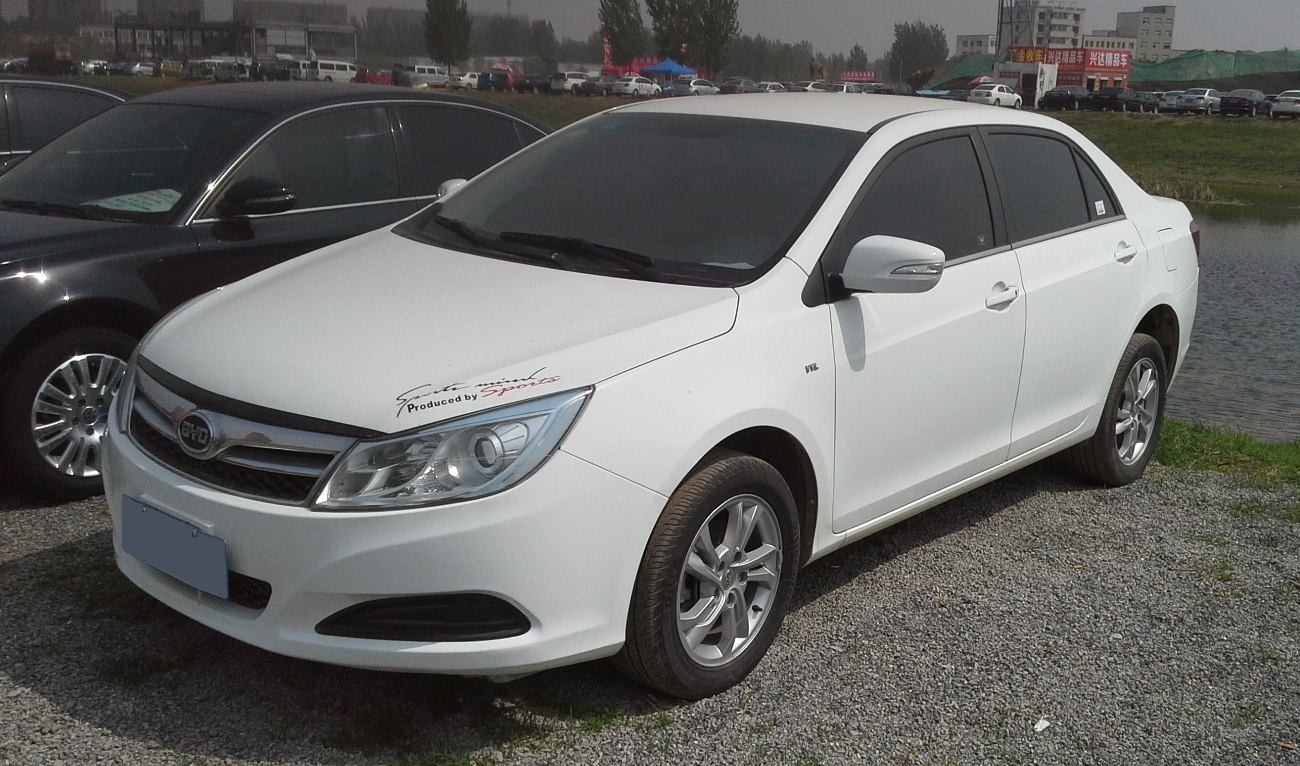 BYD Surui photographed in Zhengzhou, Henan province, China.